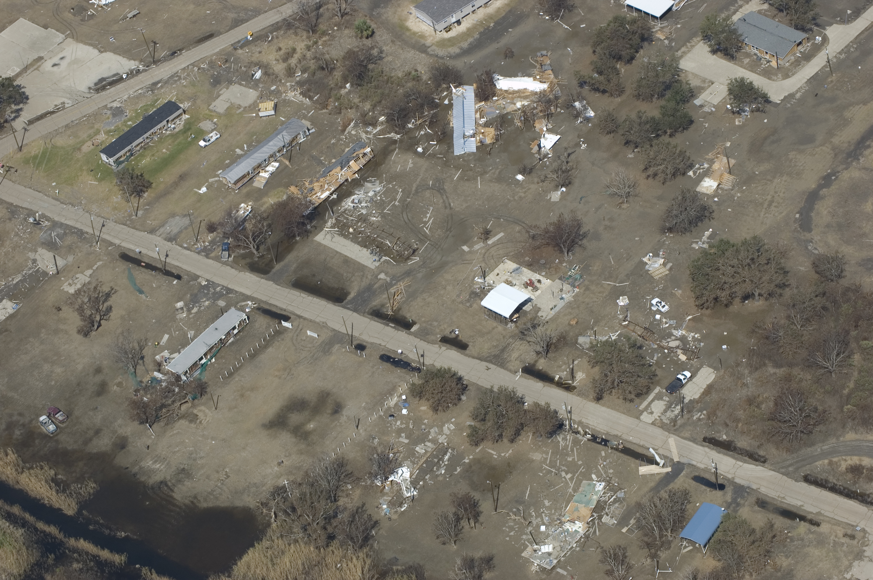 Cameron, LA, September 23, 2008 -- Aerial of Hurricane Ike's destruction of Cameron Parish. Calvin Tolleson/FEMA